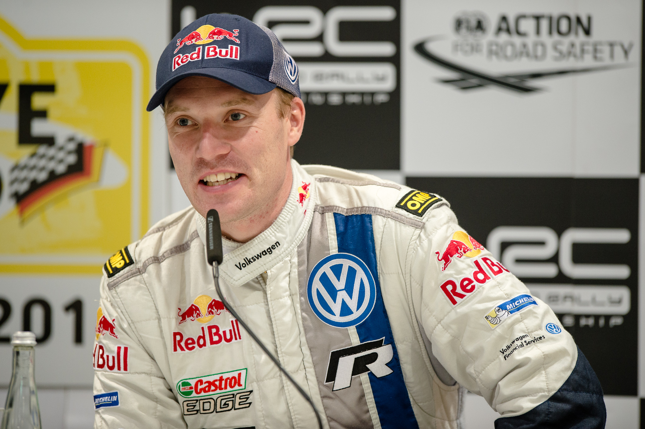 ADAC Rallye Deutschland 2014,FIA,FIA World Rally Championship,Jari-Matti Latvala,Motorsport,Pressekonferenz,Rally,Rallye,Volkswagen Motorsport,WRC